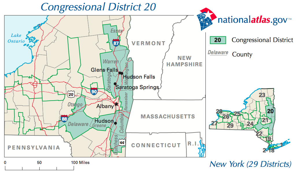 Map of New York's 20th congressional district during the 112th Congress. The district is currently represented by Chris Gibson.